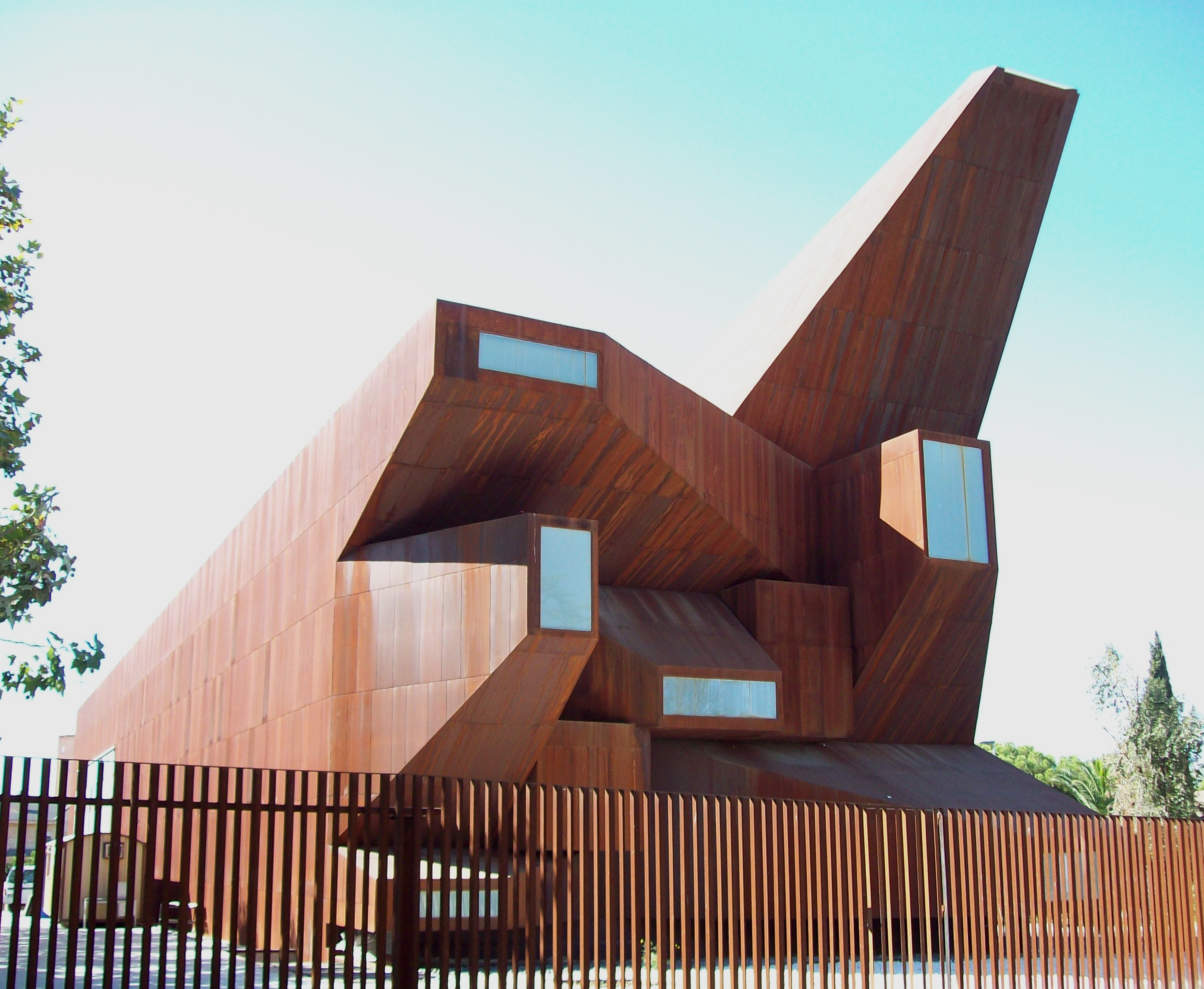 View of Saint Monica Church in Rivas-Vaciamadrid (Community of Madrid, Spain) from the east angle.